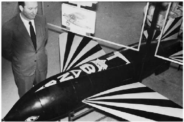 Engineer Ricardo Dyrgalla alongside the AM-1 Tabano missile.